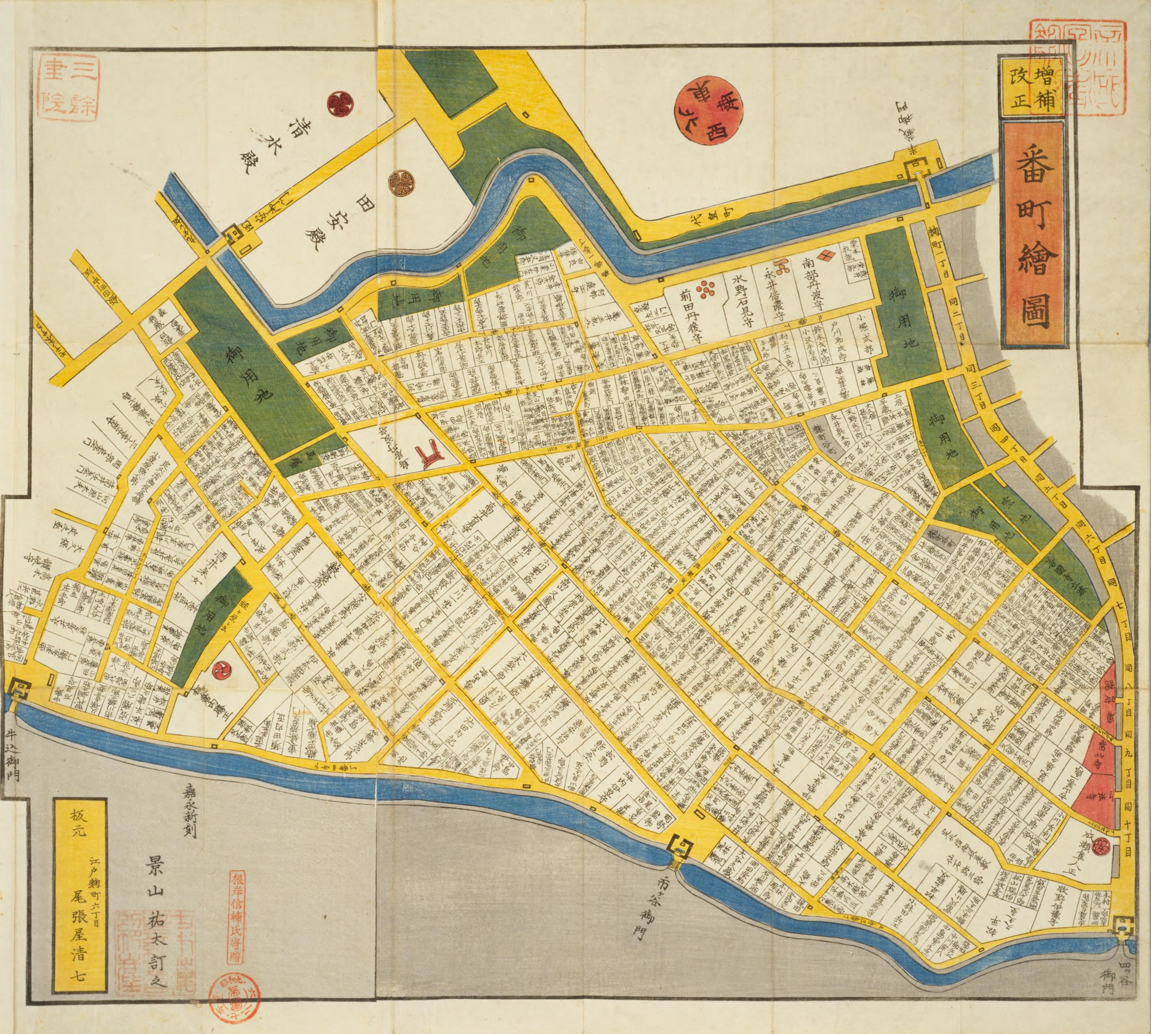 Map of Bancho area (Edo) mid 19th century